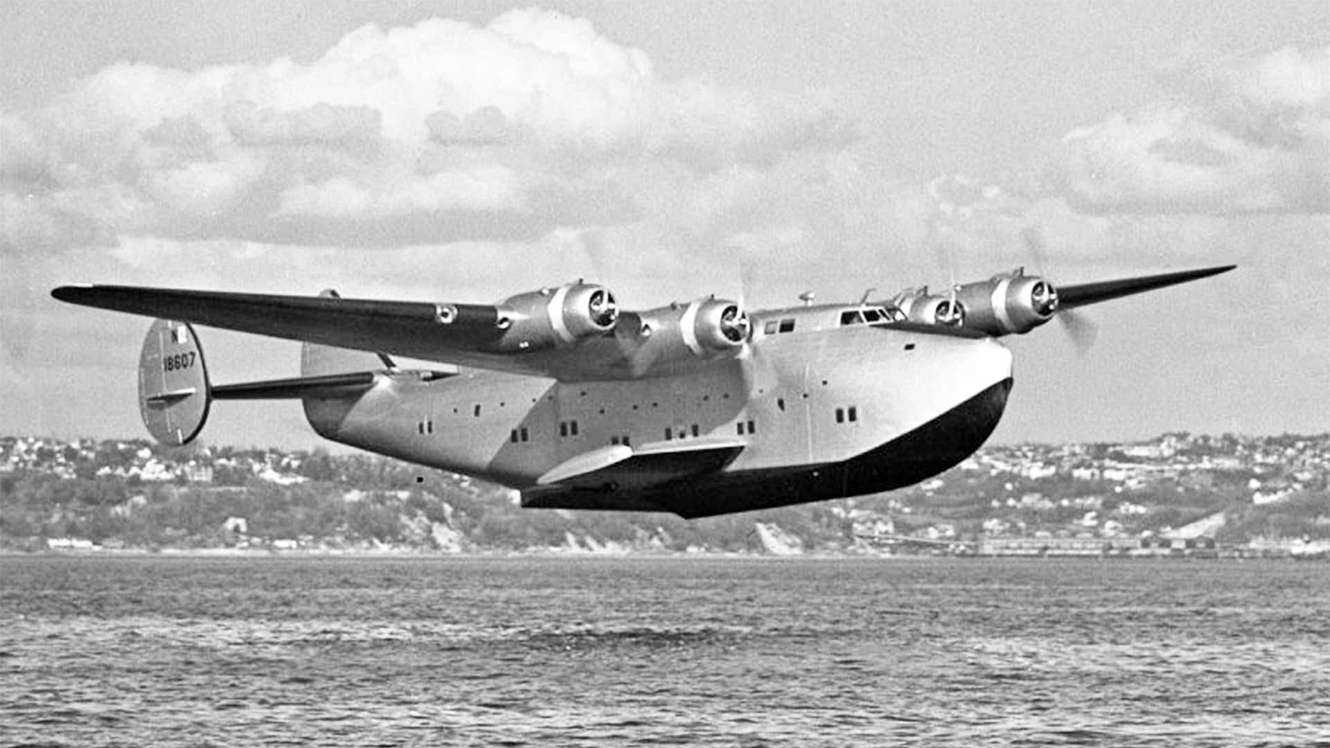 A Boeing 314 "Clipper" in flight. This Boeing 314 (c/n 2081; US civil registration NC18607) was built for the British Overseas Airways Corporation (BOAC) and served with the UK registration G-AGBZ from 1941 to 1948. It was sold to the General Phoenix Corporation, Baltimore, Maryland (USA), as NC18607 in 1948 and later scrapped.